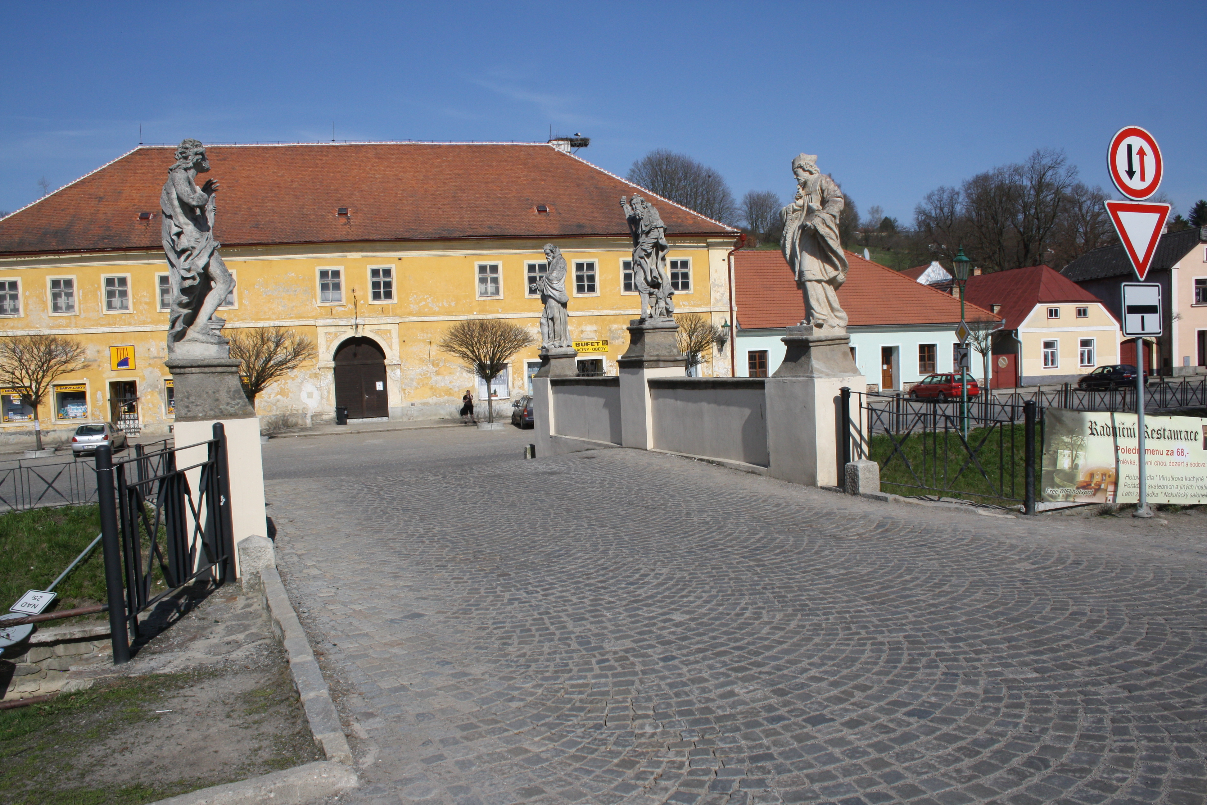 Baroque bridge in Brtnice.